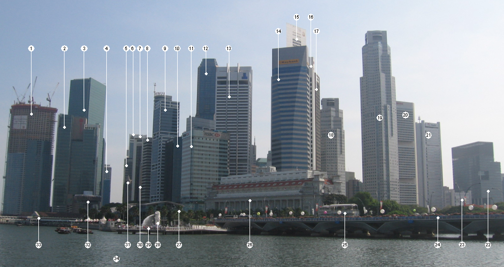 City skyline of Singapore, from Marina Bay